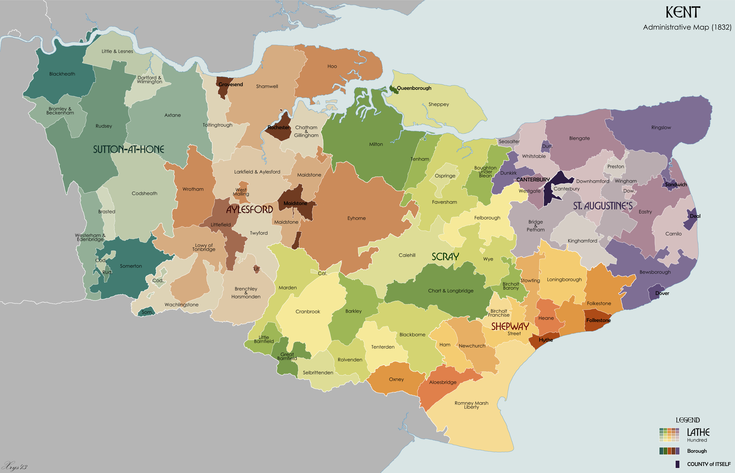 Administrative map of the ancient county of Kent in 1832. Showing Lathes, Hundreds, Boroughs and the County of Itself of Canterbury. Source data on parish boundaries - Kain, R.J.P., and Oliver, R.R. (2001) "Historic parishes of England and Wales: Electronic Map - Gazetteer - Metadata", Colchester: History Data Service. ISBN 0 9540032 0 9. Source data for Boroughs: H.M.S.O. Boundary Commission Report 1832 (courtesy of